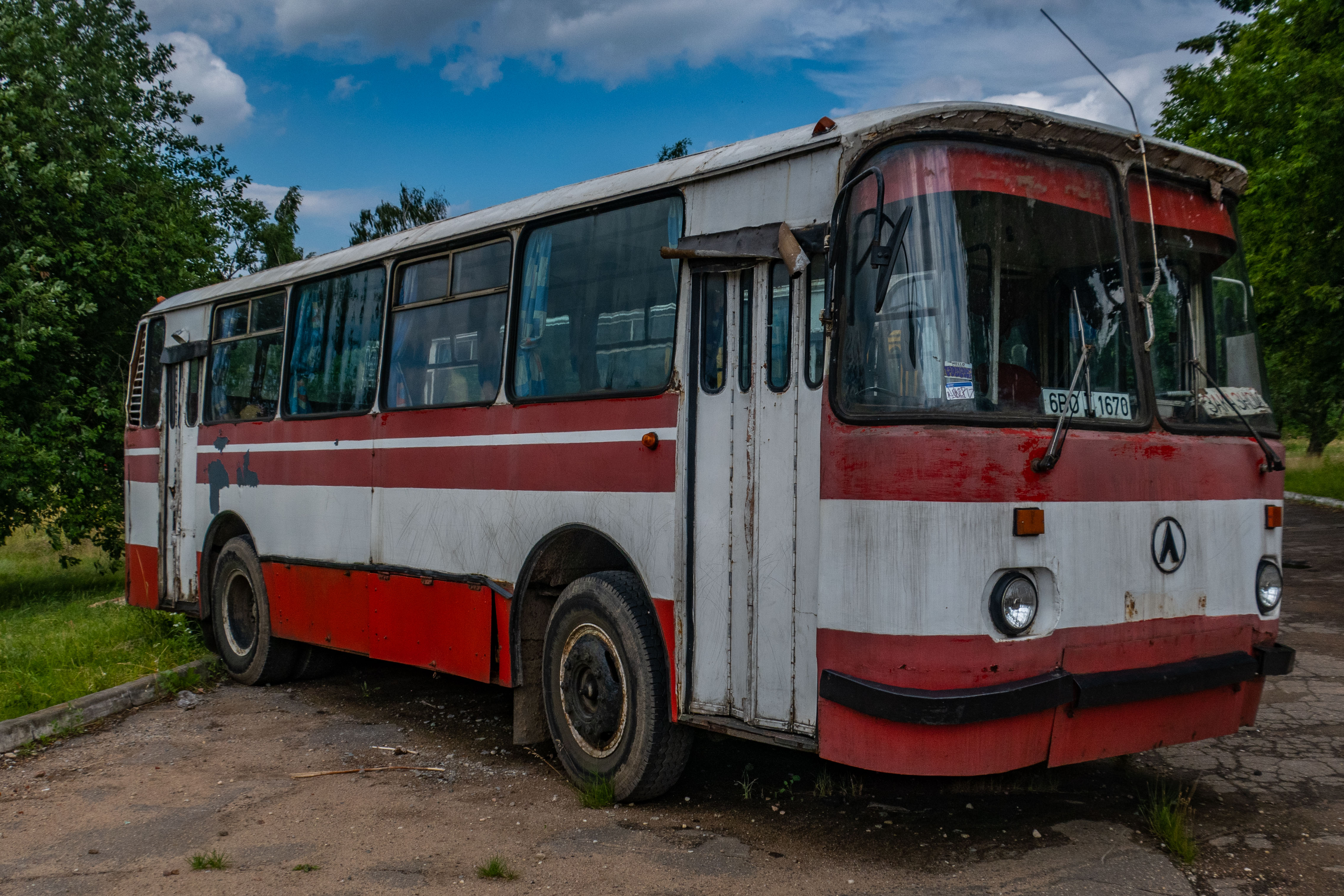 LAZ-695 bus. Minsk, Belarus